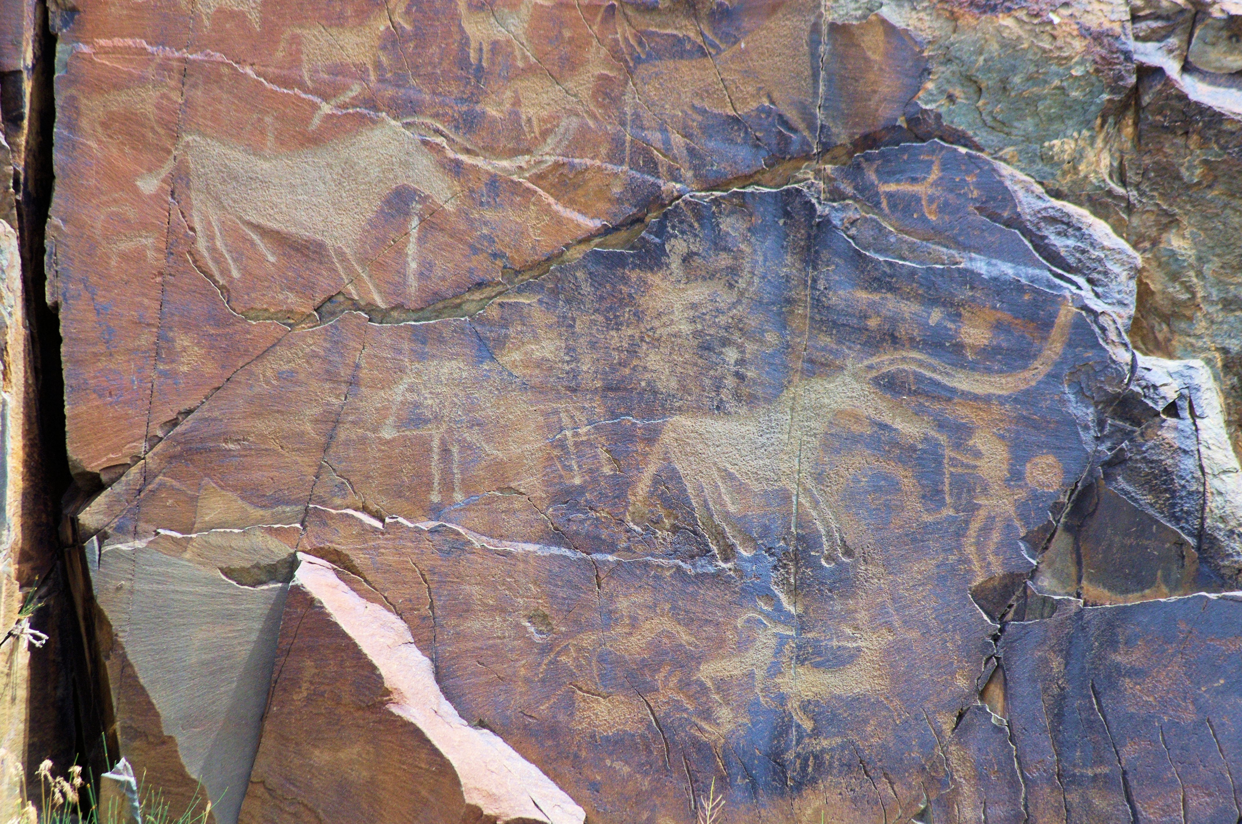 Complex hunting scene in a bronze age petroglyph at Tamgaly, Kazakhstan.